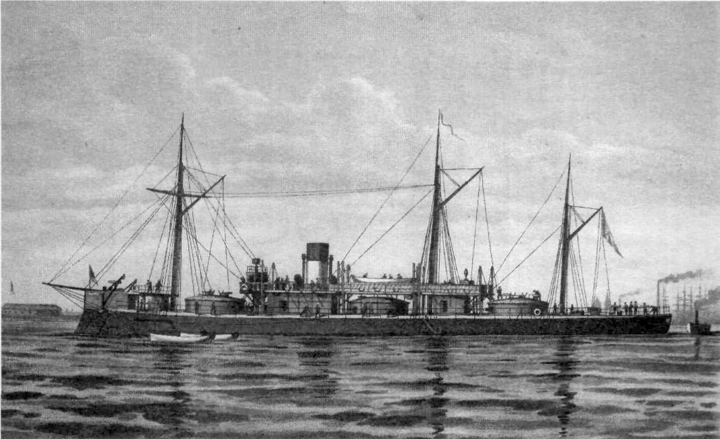 Russian armoured turret frigate Admiral Lazarev (1867)